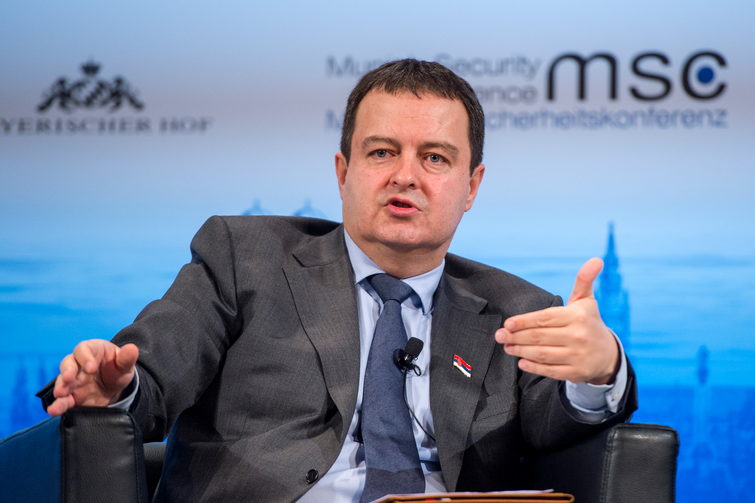 50th Munich Security Conference 2014: Ivica Dačić: Ivica Dačić (Prime Minister, Belgrade)